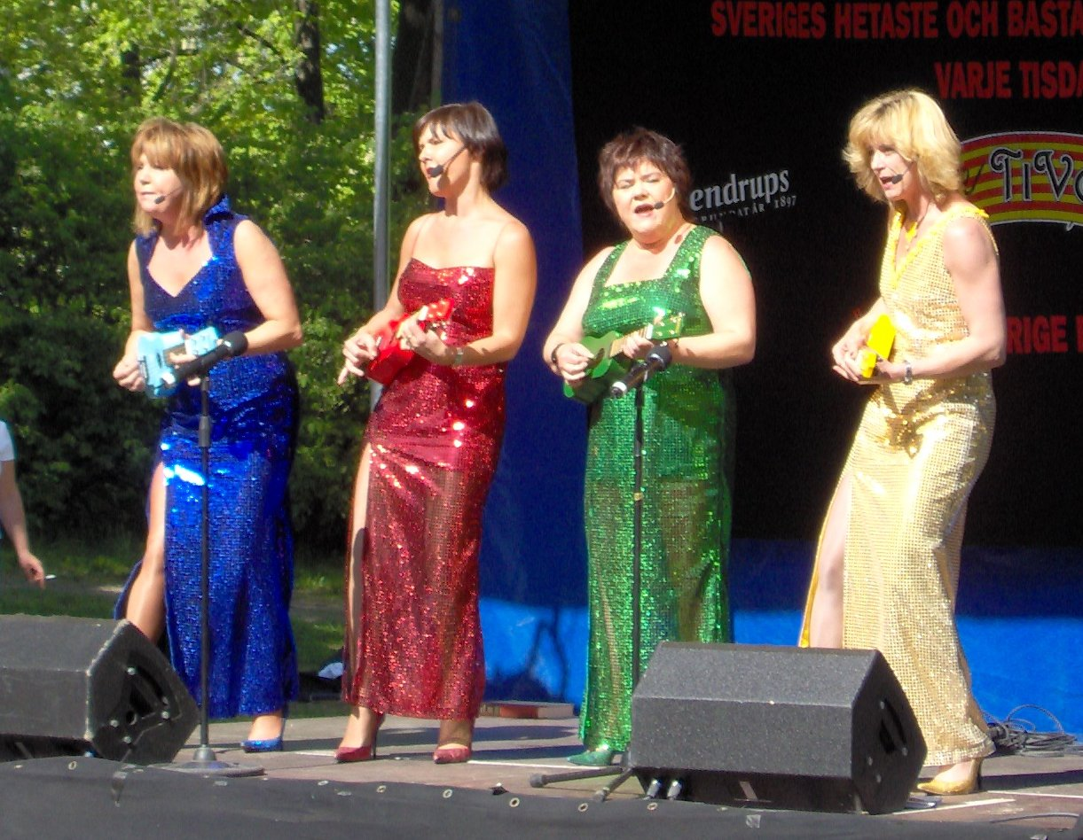 Swedish comedian/music group ”En liten jävla kvinnorörelse” at the Skrattstock comedy festival in Stockholm on June 3rd 2006.